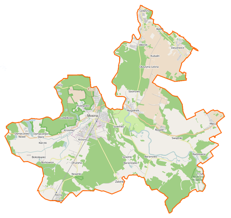 Map of Gmina Mosina, PolandThis map of Mosina (gmina) was created from OpenStreetMap project data, collected by the community. This map may be incomplete, and may contain errors. Don't rely solely on it for navigation.